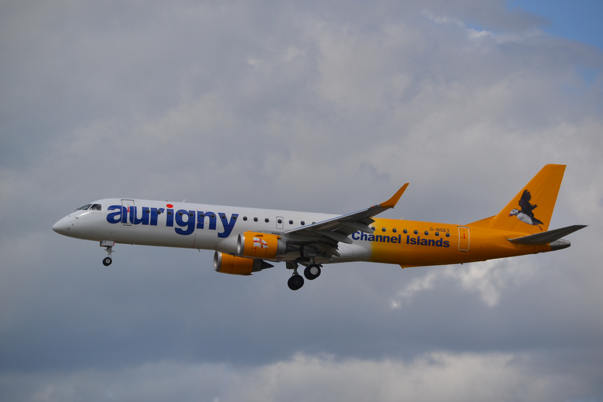 Embraer Emb.195 of Aurigny Air Services on final approach for rwy.26L at London Gatwick-LGW, 12/05/15.